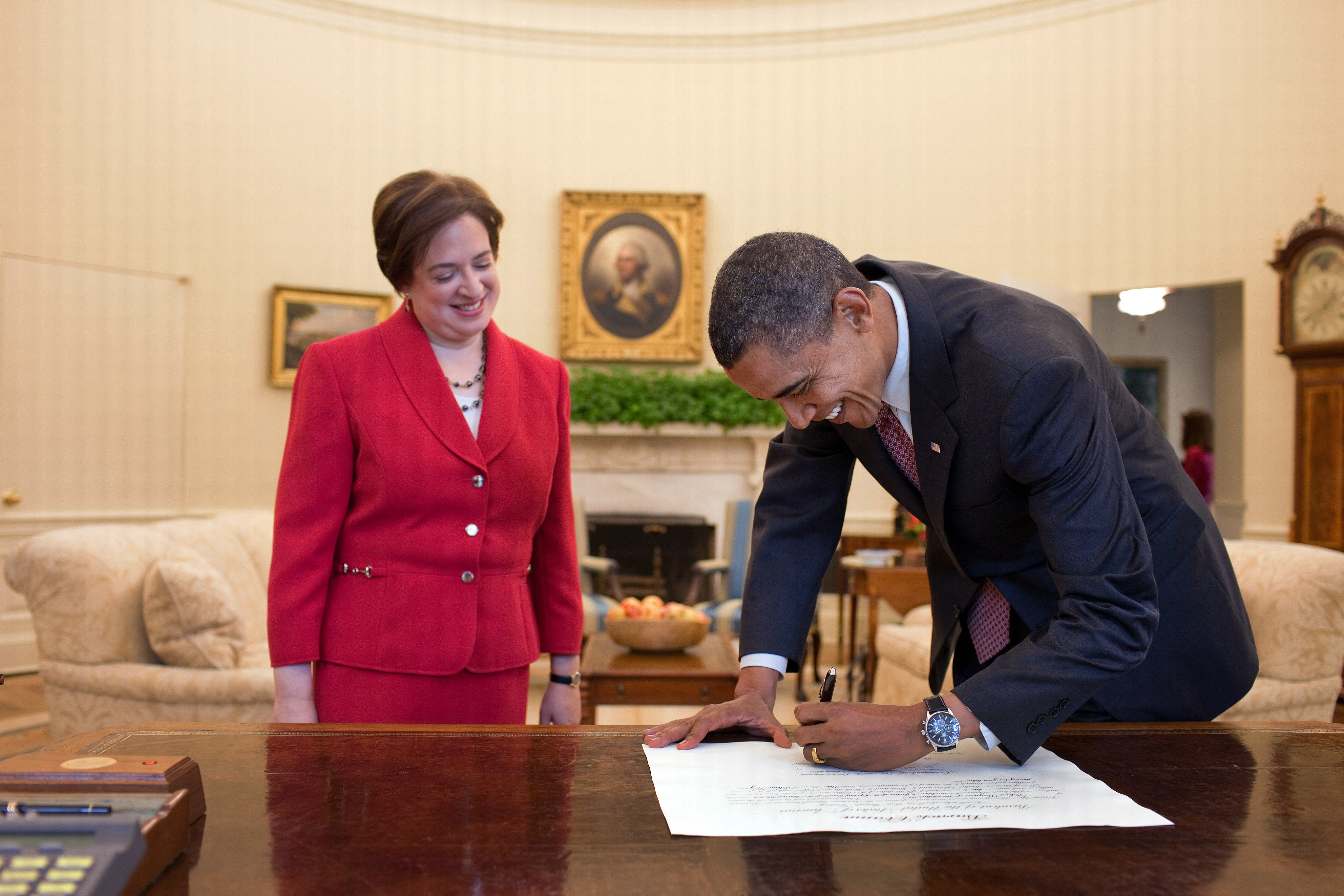 President Barack Obama signs Elena Kagan's commission in the Oval Office, before a reception in the East Room celebrating her confirmation to the Supreme Court, Aug. 6, 2010. (Official White House Photo by Pete Souza) This official White House photograph is in the public domain from a copyright perspective, so while restrictions such as personality or privacy rights may apply, in general, manipulations are allowed.